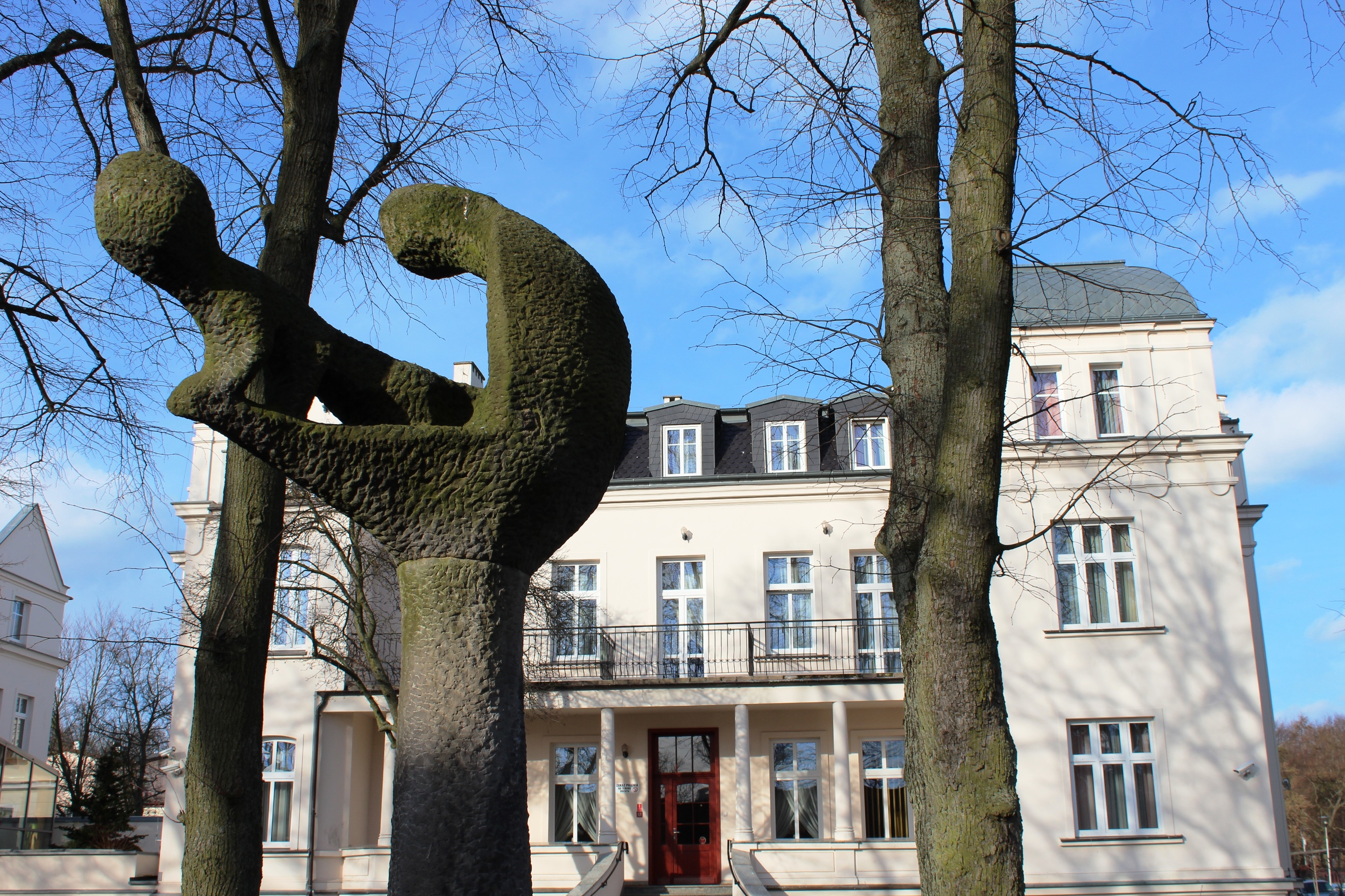 Mewa V Sanatorium in Kołobrzeg